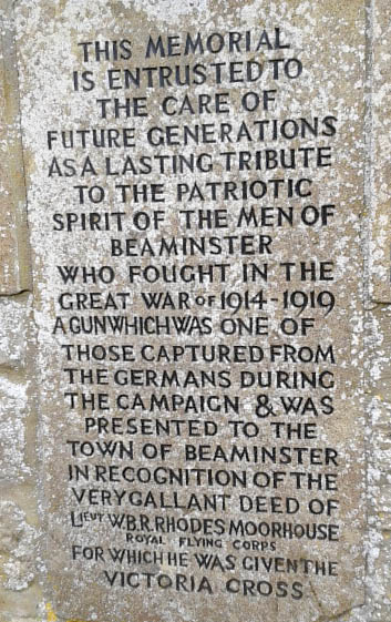 Memorial Stone dedicated to WWI dead and VC recipient W.B.R Rhodes Moorhouse.